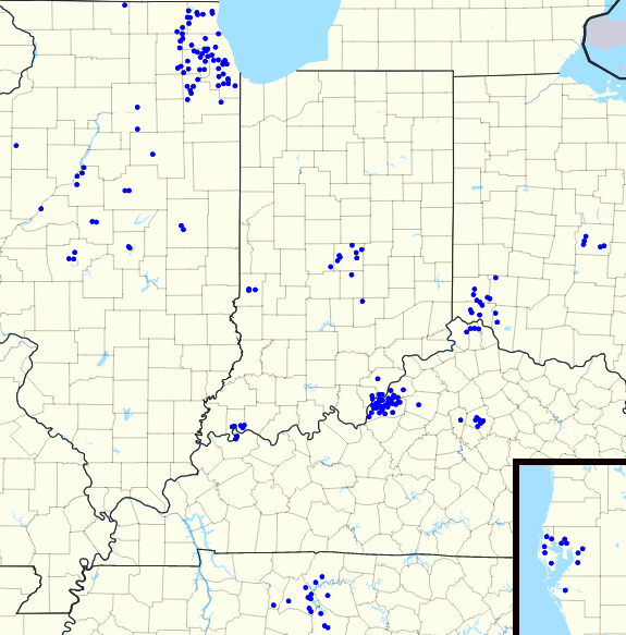 Geographic footprint of Thorntons LLC's 200 locations, as of 2 January 2020. Most of the map is part of the Midwestern US, the inset on the lower right is Tampa Bay area.